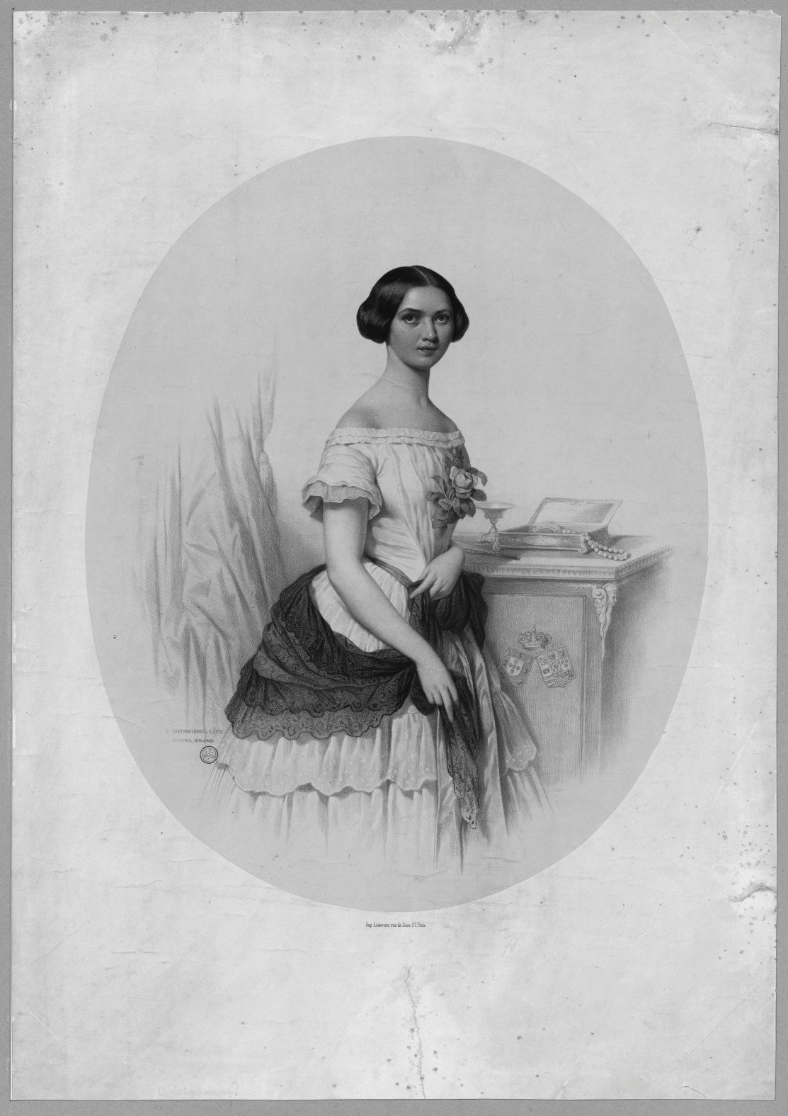 Adelaide of Löwenstein-Wertheim-Rosenberg, titular queen of Portugal